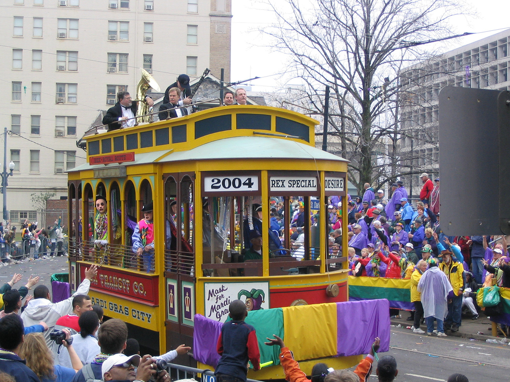 New Orleans Mardi Gras Day 2004. Rex parade "Desire" streetcar float on St. Charles Avenue at Lee Circle. Musicians visible atop float include (left to right) Tom Saunders, tuba; Clive Wilson, trumpet; (obscured, possibly Buzzy Podewell?) banjo; Duke Heitger, trumpet, (? Otis Bazoon?), ?reeds.